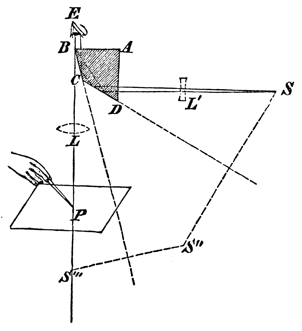 Optics of Wollaston camera lucida From W. H. C. Bartlett, Elements of Natural Philosophy, 1852, A. S. Barnes and Company. Photocopy kindly provided by Tom Greenslade, Department of Physics, Kenyon College. This image was scanned from the photocopy and cleaned up by Daniel P. B. Smith. This version is licensed by Daniel P. B. Smith under the terms of the Wikipedia Copyright.